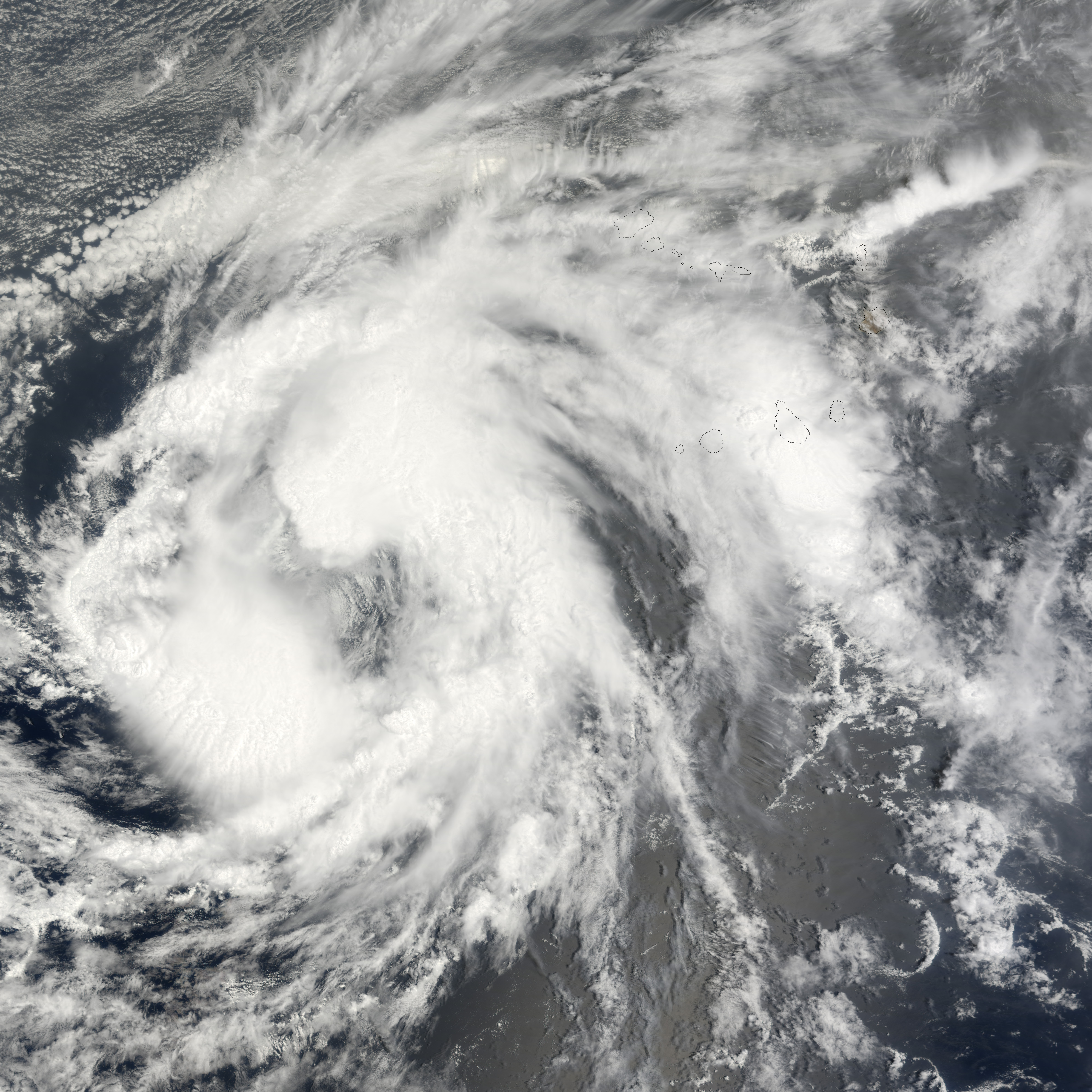 Tropical Storm Josephine on September 3, 2008 at 12:20 UTC, taken by the Terra satellite.